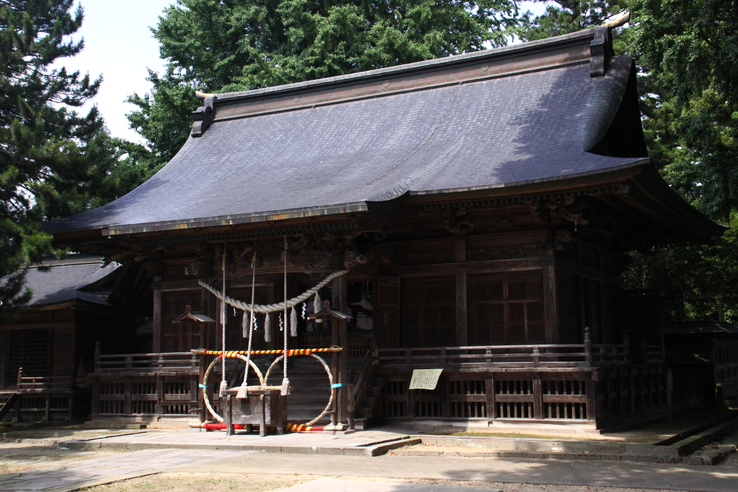 Kattamine jinja Haiden